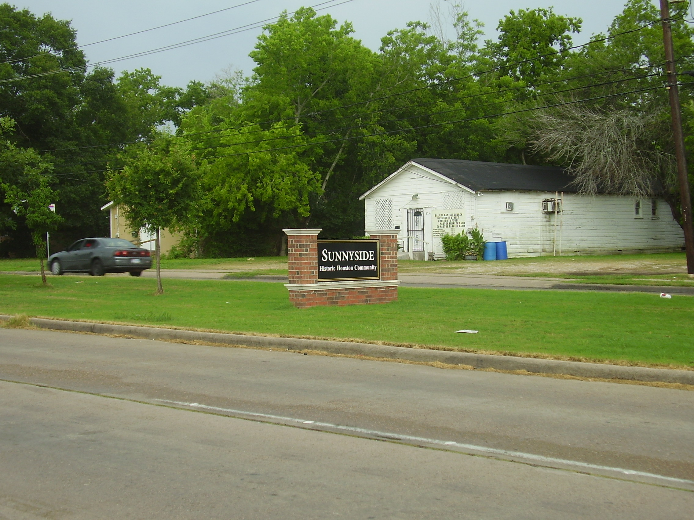 Sunnyside subdivision sign